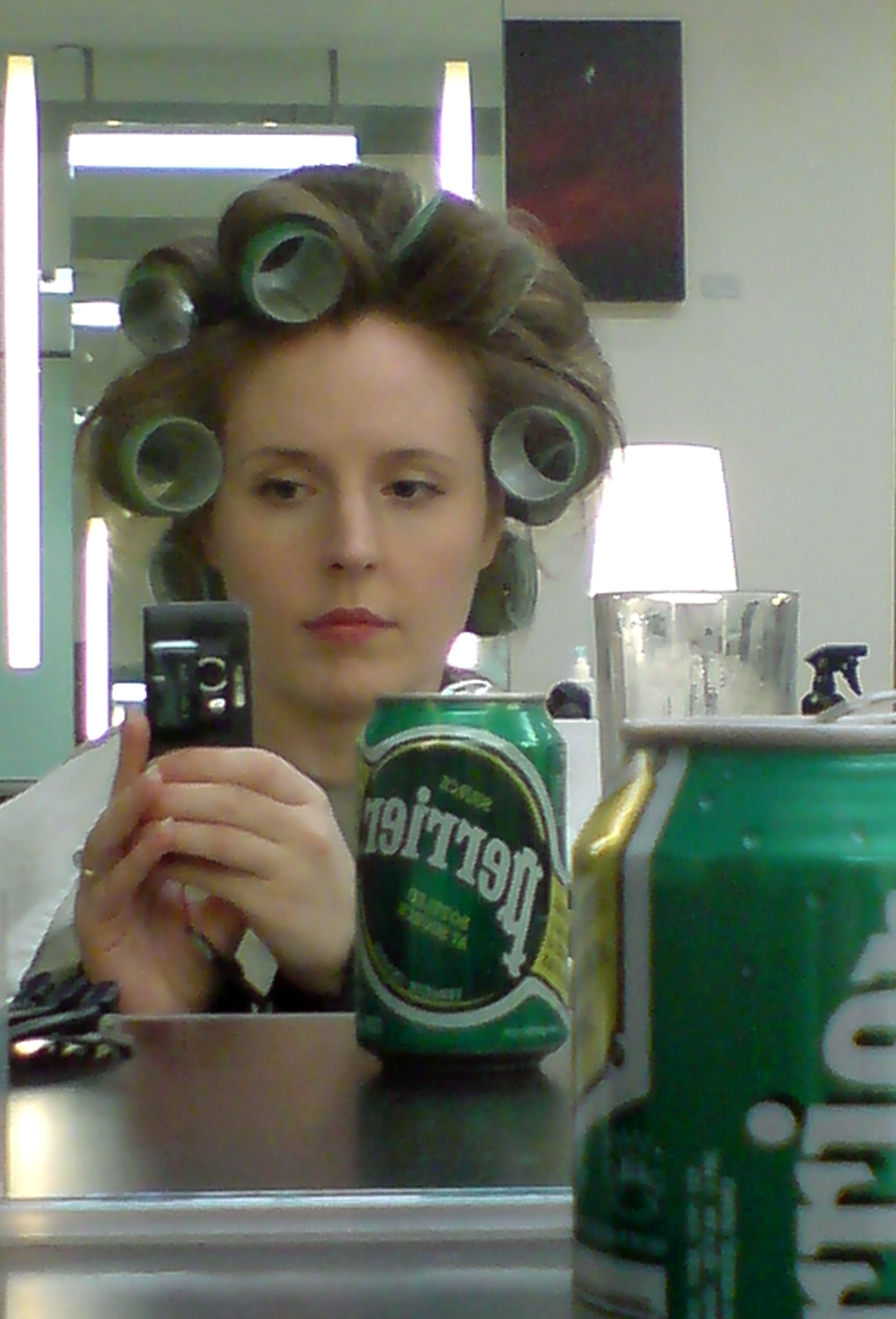 Woman with hair in curlers taking photo of self in mirror.